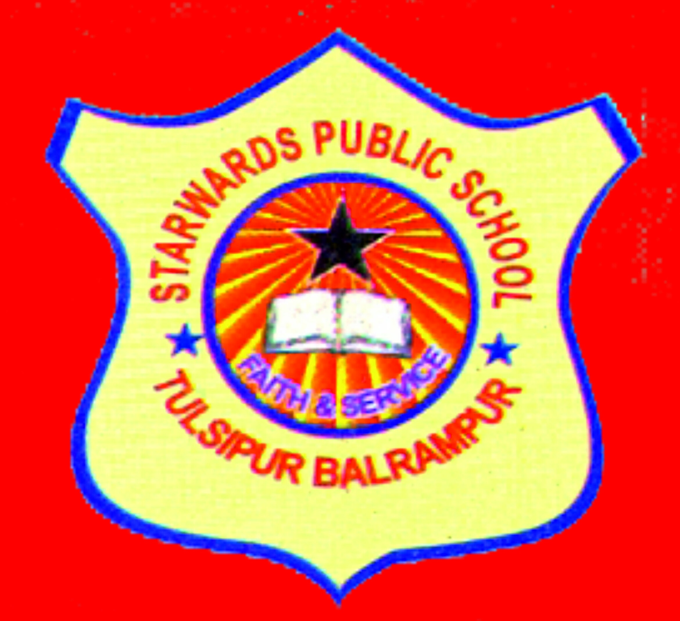 Starwards Public School's Logo.